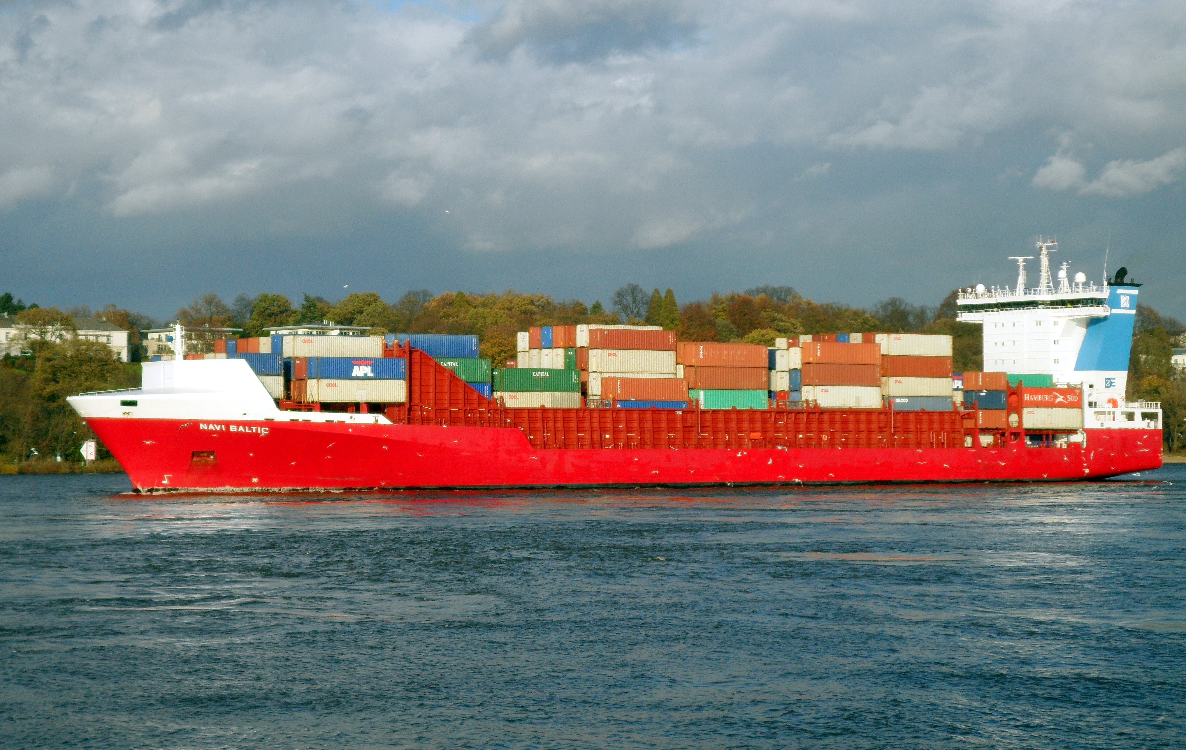 Team Lines feeder vessel Navi Baltic river Elbe down in November 2013